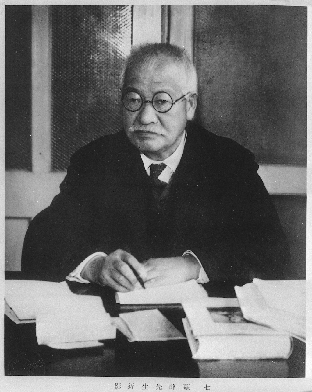 Portrait of Tokutomi Soho (徳富蘇峰, 1863 – 1957)